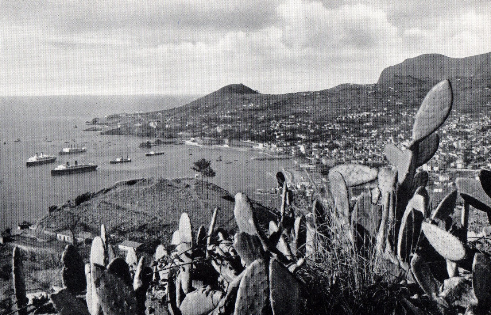 Vista do Funchal Note: Apparently before 1934, old quay still there